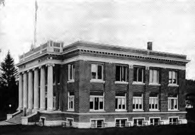 Admin Building an University of Oregon circa 1920